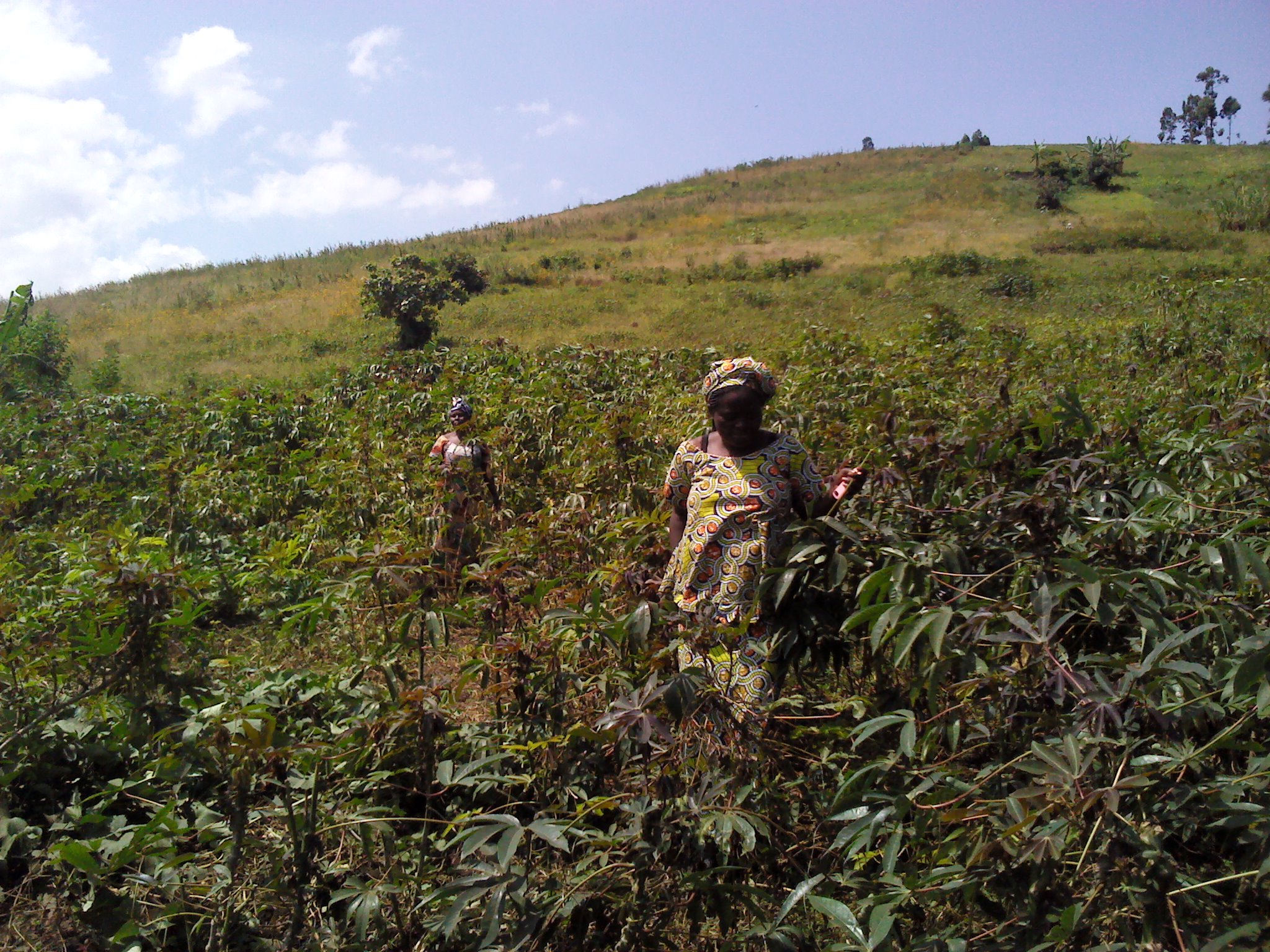 Women in a cassava farm in DRC This is an image of "African people at work" from Democratic Republic of the Congo